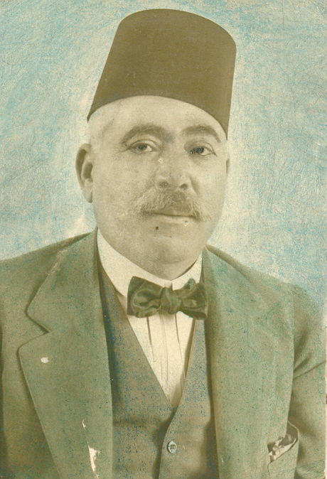 Colorized photograph of Ahmad Zaki Pasha (1867-1934), also known as the Dean of Arabism.